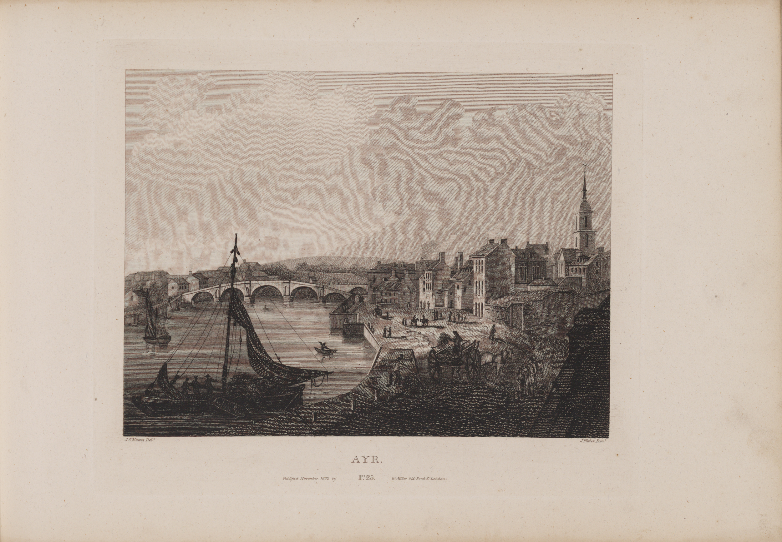 Plate XXV/b - John Claude Nattes made drawings of suitable scenes on the spot; etchings are by James Fittler.